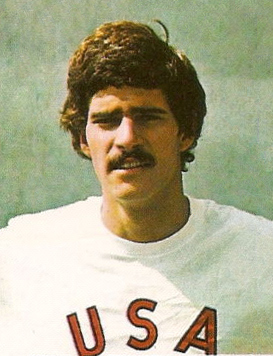 MARK SPITZ PANINI CAMPIONI DELLO SPORT 1973/74 73/74 NUOVA PERFETTA